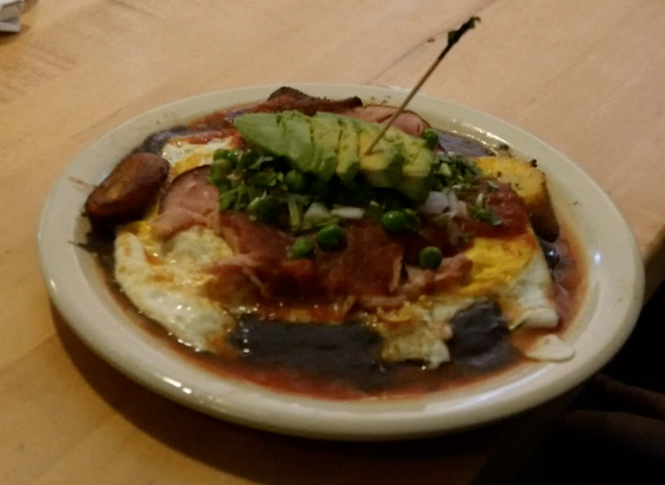 Huevos Motuleños from Kerbey Lane Cafe, Austin, TX with plantains, peas, avocado.